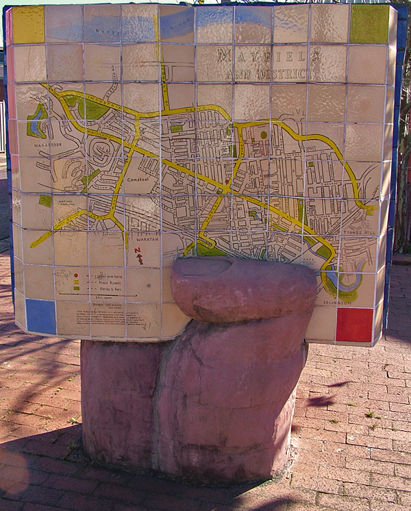 Mosaic Map of Mayfield, New South Wales, Australia